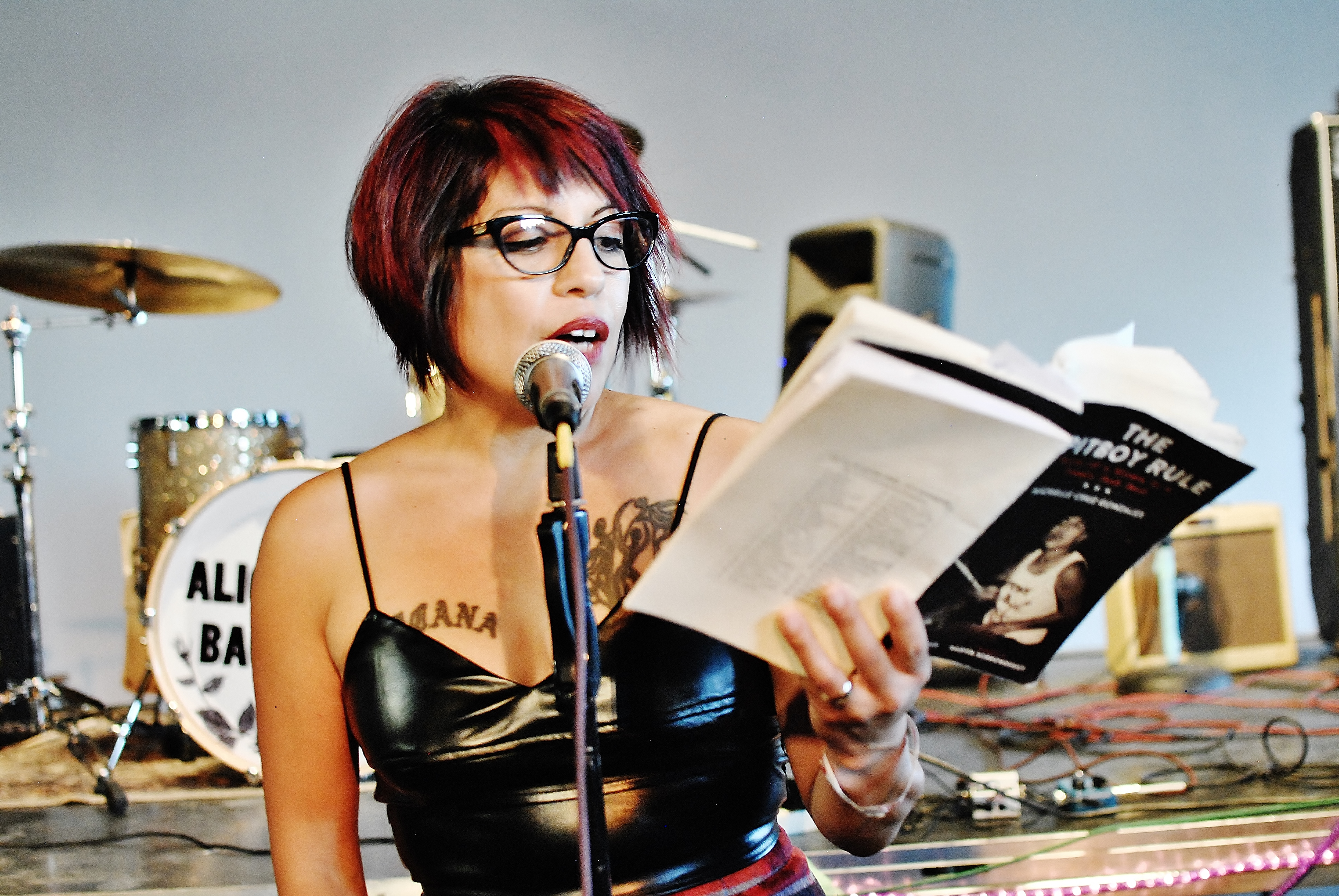 Photo of Michelle Cruz Gonzales by Deb Frazin; purchased by Michelle Cruz Gonzales from Deb Frazin